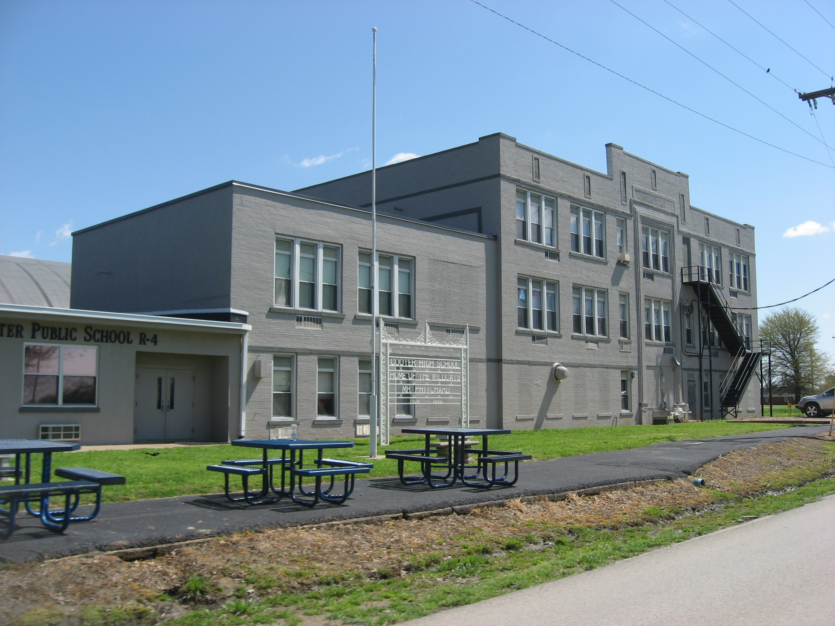 Comprehensive view of the Cooter High School, located at 1867 Route E in Cooter, Missouri, United States. It was built in 1909.